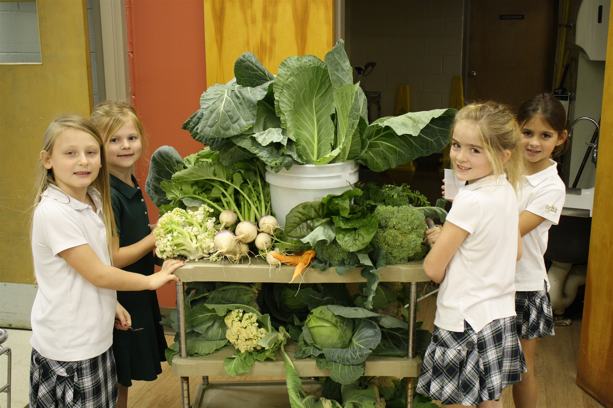 Savannah Country Day photo